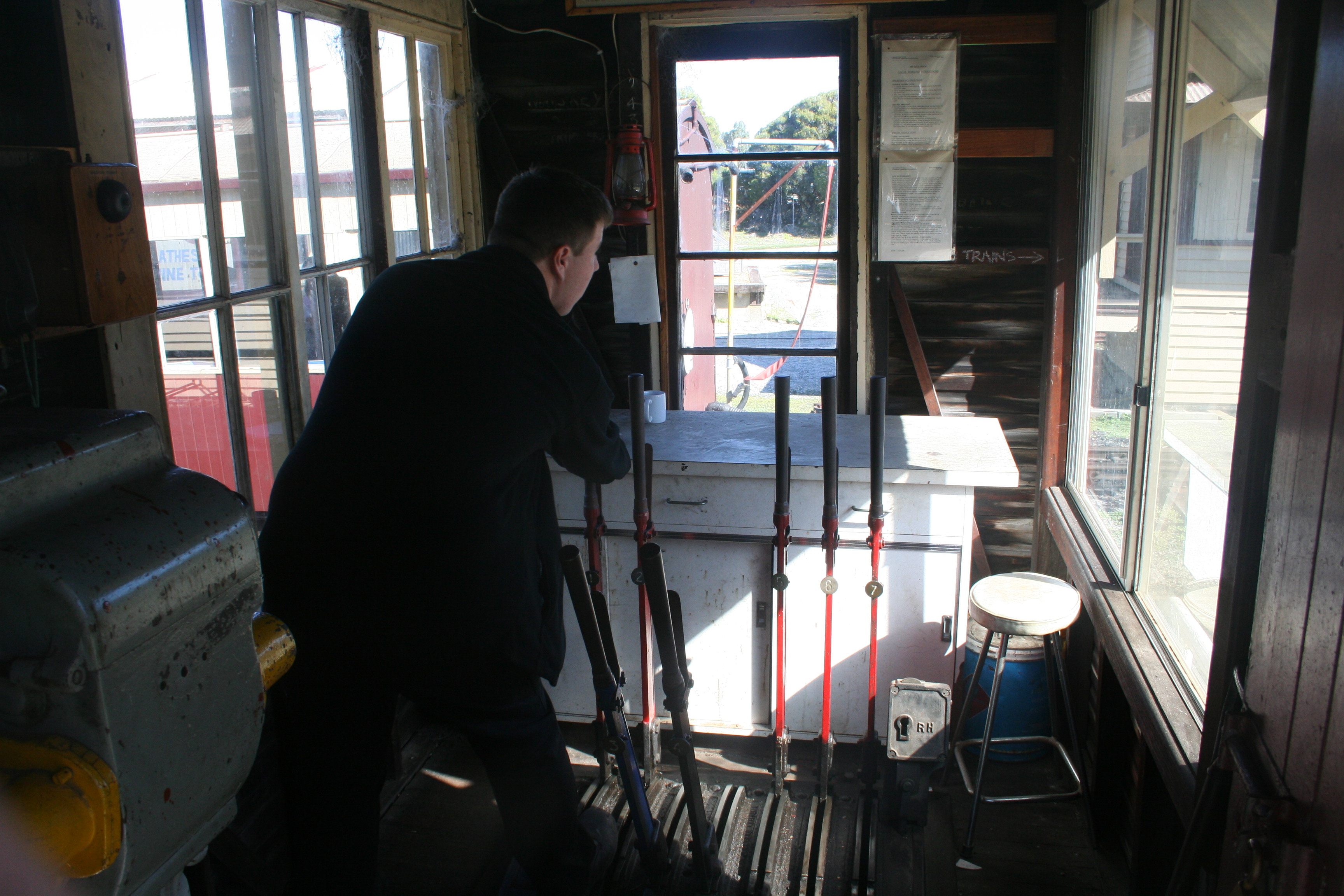 The Former Signal cabin in place at mussel pool, originally from Collie, in use.